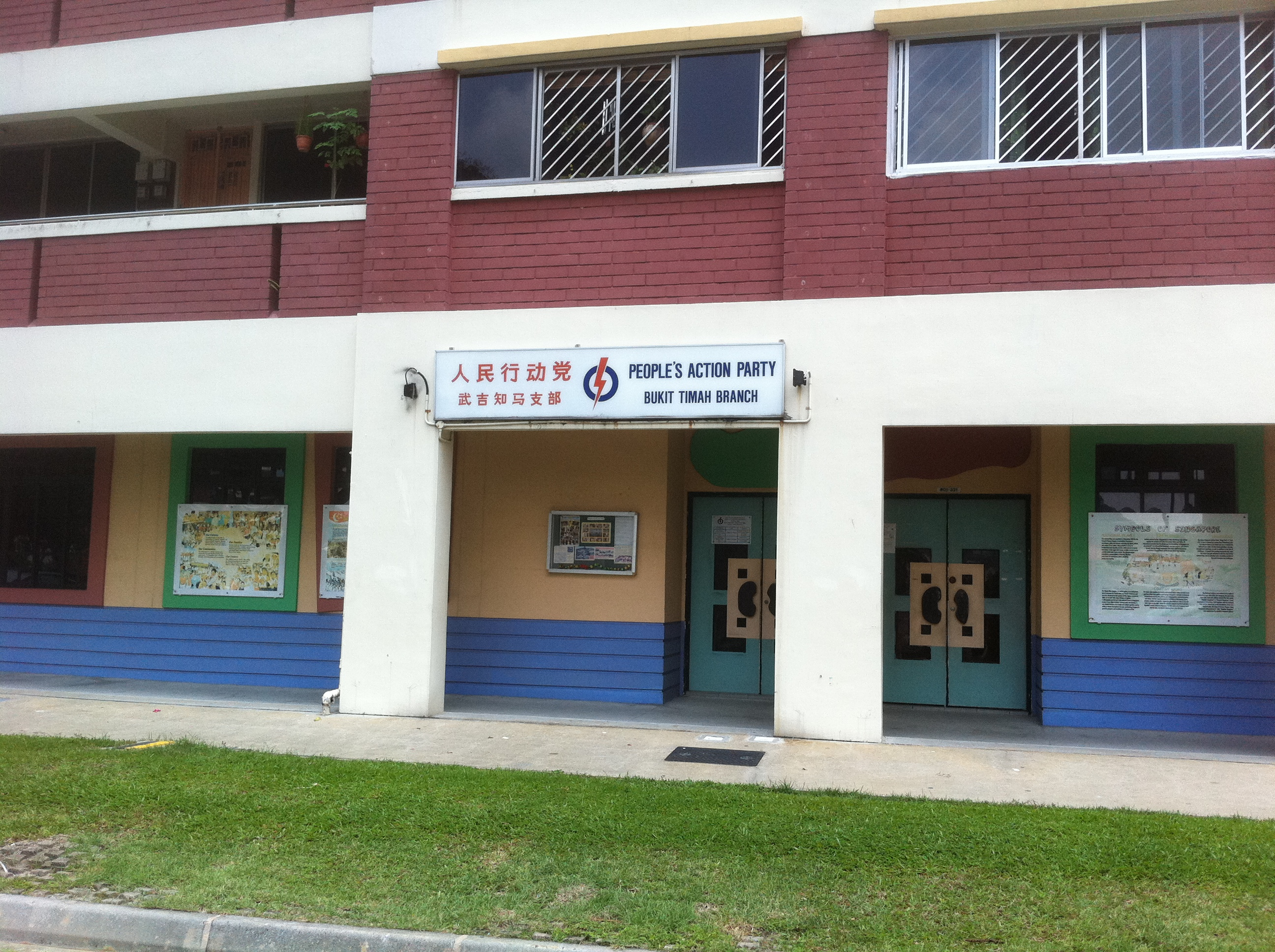 The office of the People's Action Party's Bukit Timah Branch.